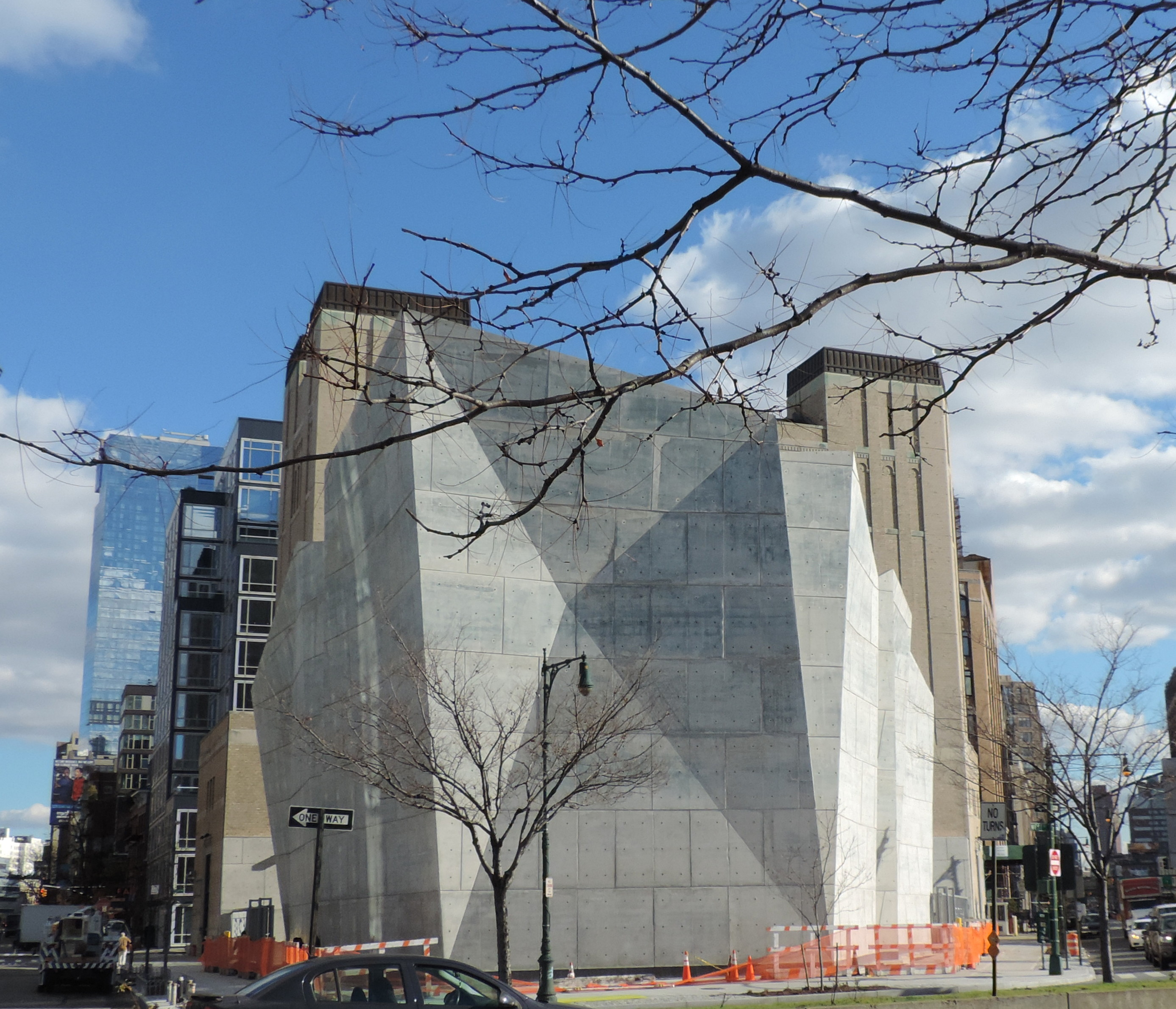 Looking southeast at new salt shed.